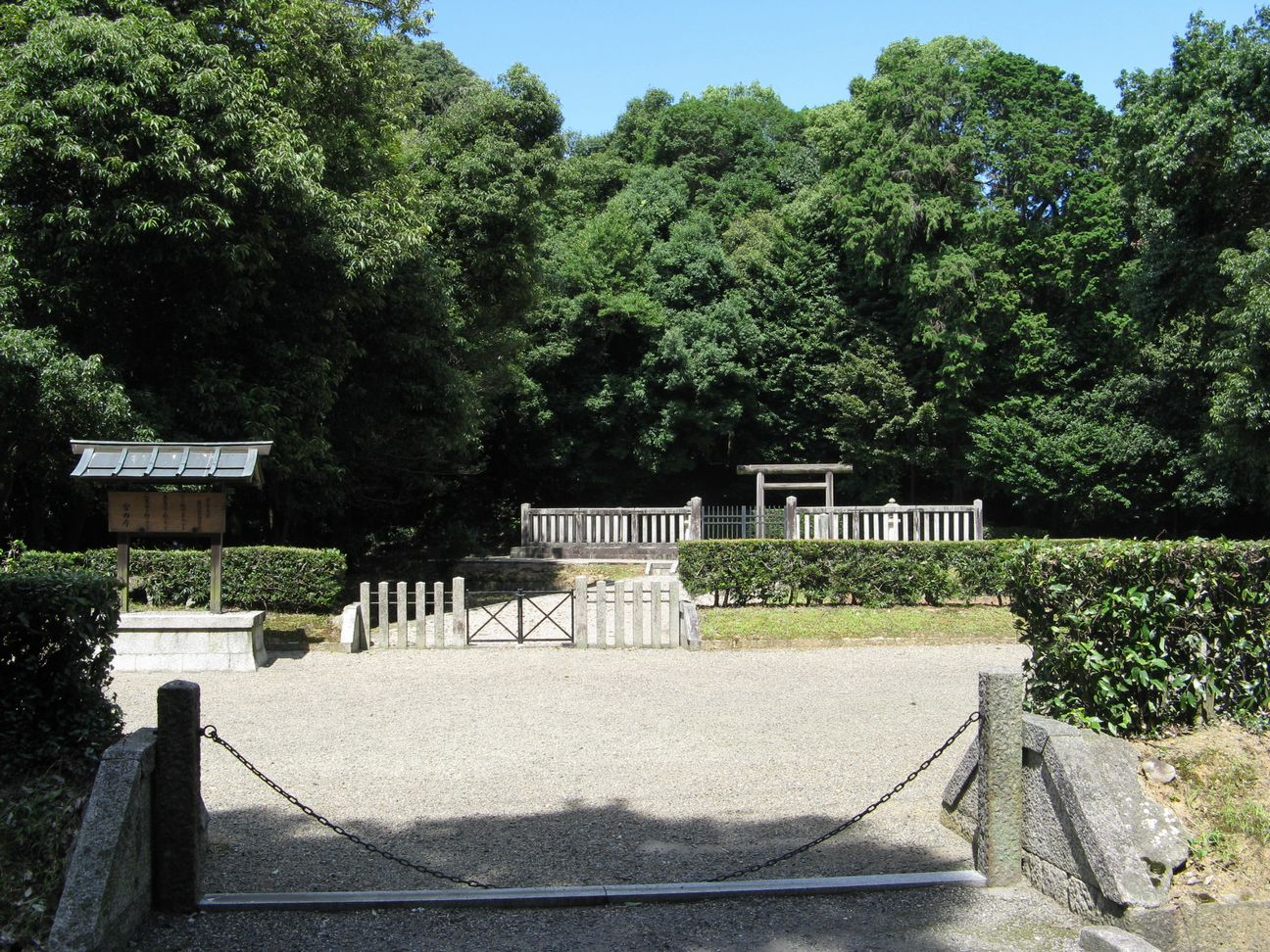 Front view of the mausoleum of Emperor Annei in Nara.